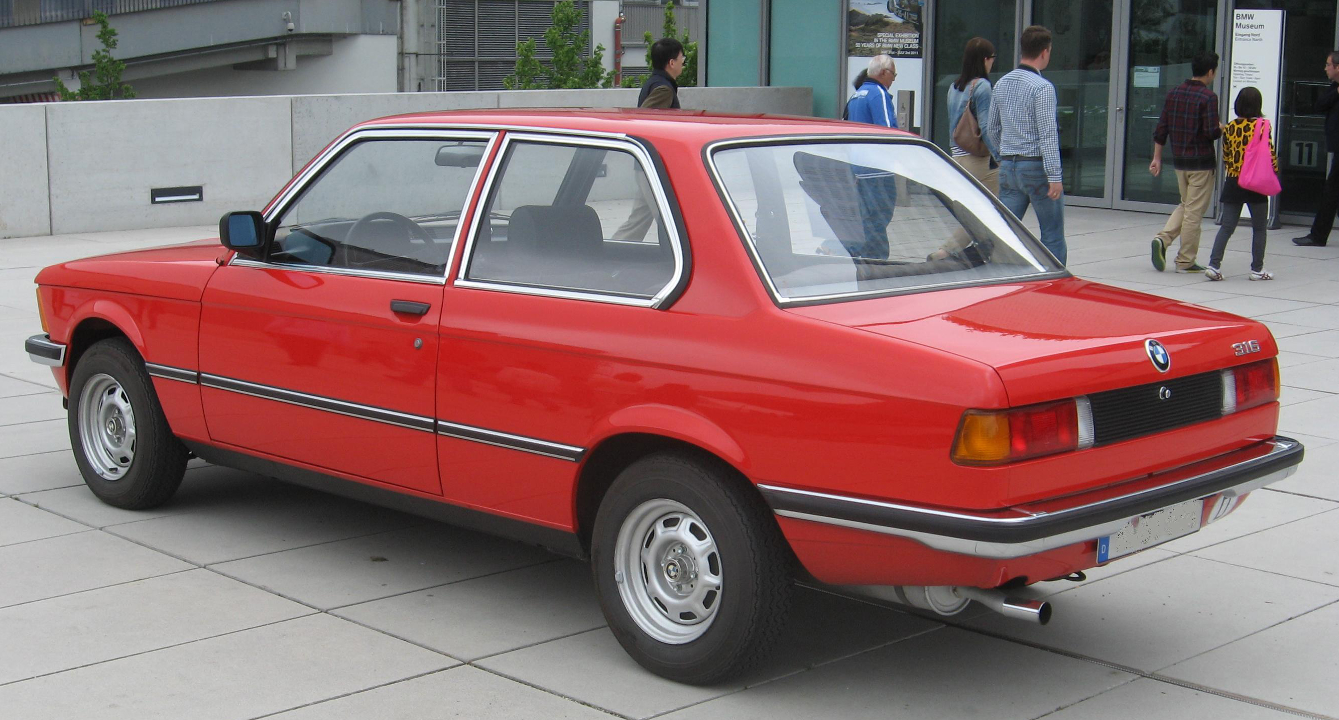 Subject: BMW 316 E21 Date:June 11th, 2011 Event: BMW Museum Place/Country: Munich, Germany I release all rights in the public domain.